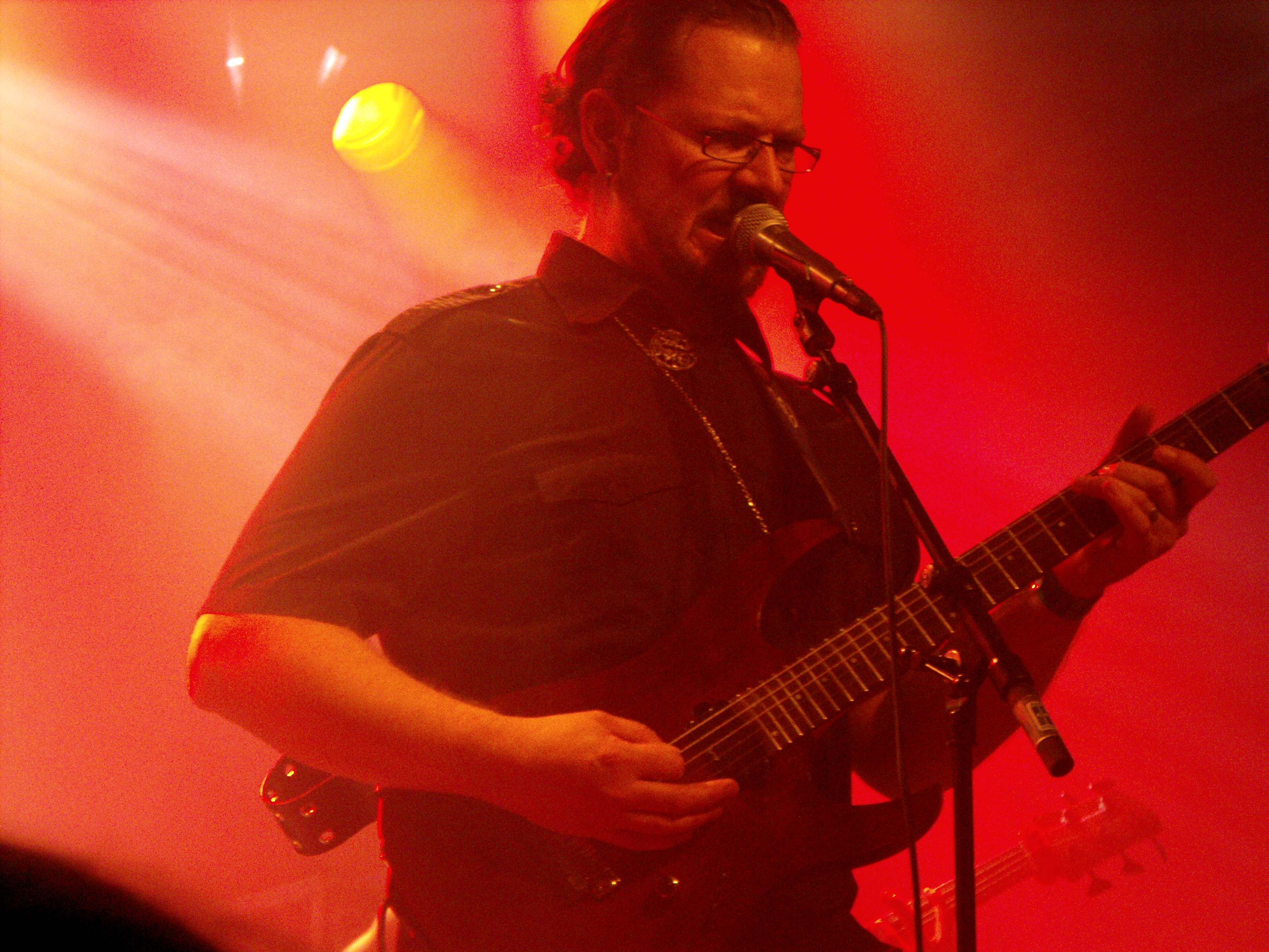 Ihsahn performing during Hole in the Sky festival in Bergen, Norway, August 2010